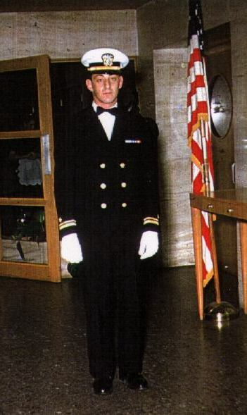 Harvey Milk in dress Navy Blue uniform for his brother's wedding in 1954